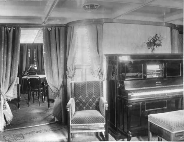 Ladies' lounge in Norwegian passenger ship DS Haakon VII, built in 1907.